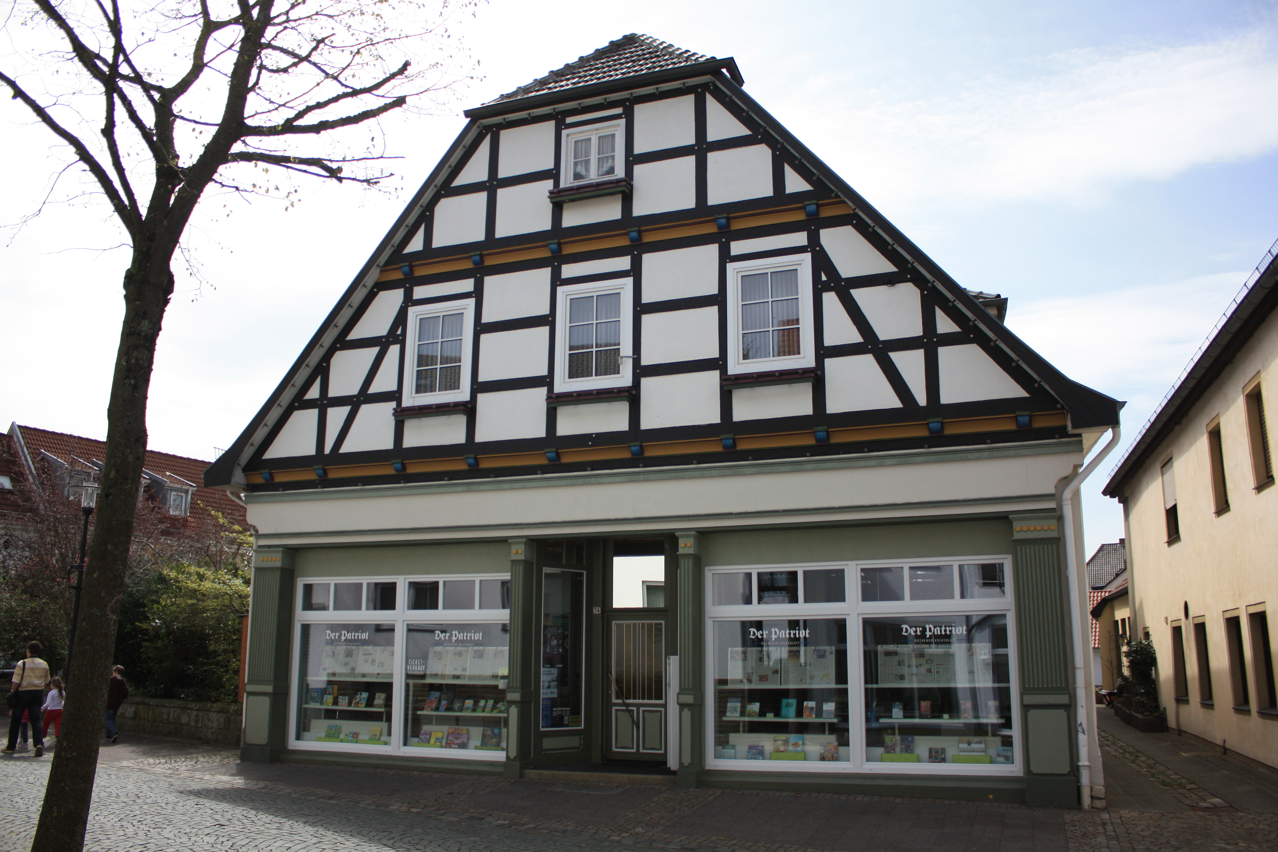 Rüthener Patriot-Geschäftsstelle, Hochstraße 24 A geocoded location could be added to this image. Visit Commons:Geocoding for information on how to add coordinates. Beta-test: Add coordinates helps to determine coordinates.